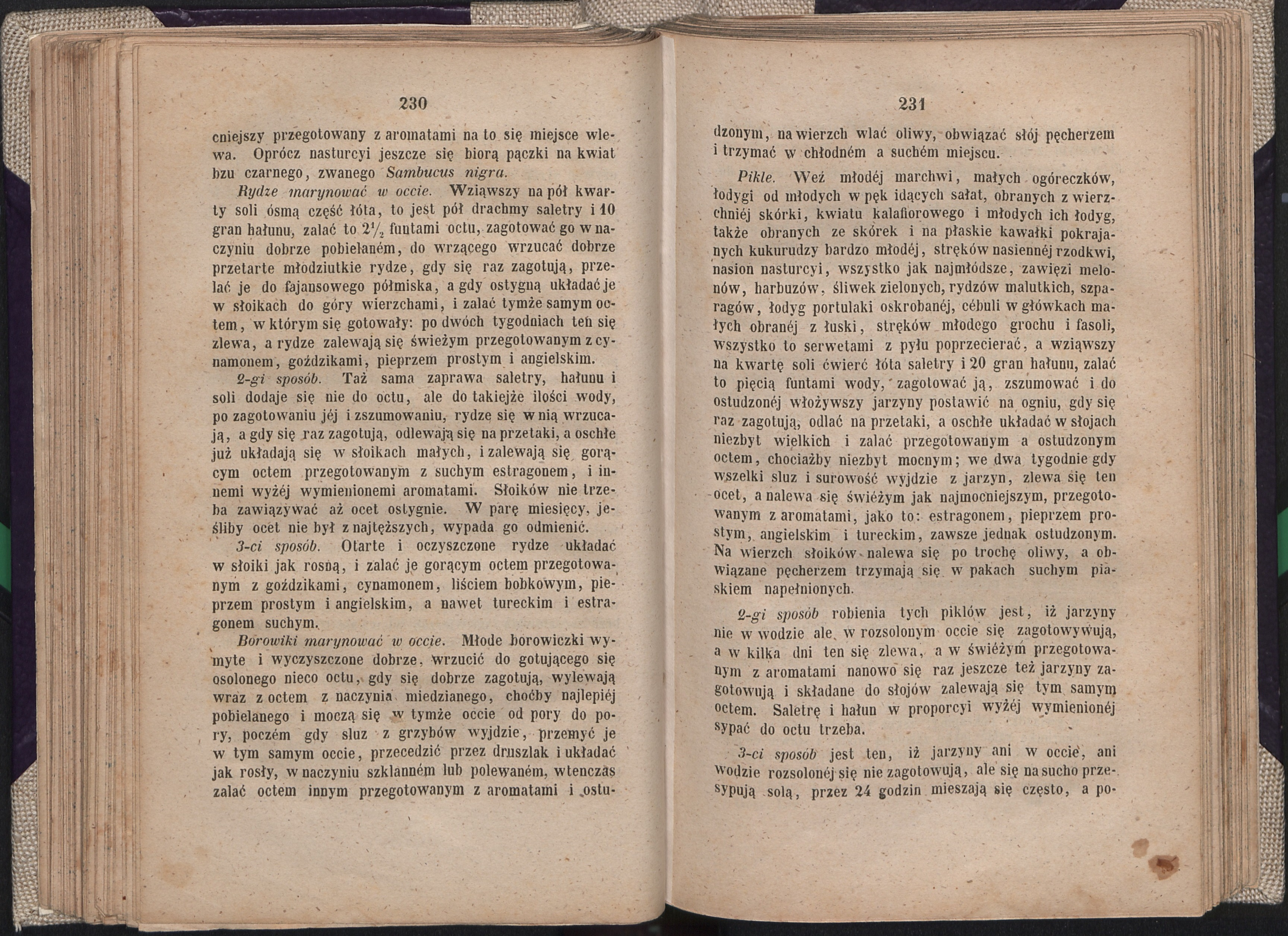 Scan of a page from the book "Gospodyni litewska" Wyd. 3 by Ciundziewicka, Anna (1803-1850). Recipes for pickled mushrooms.